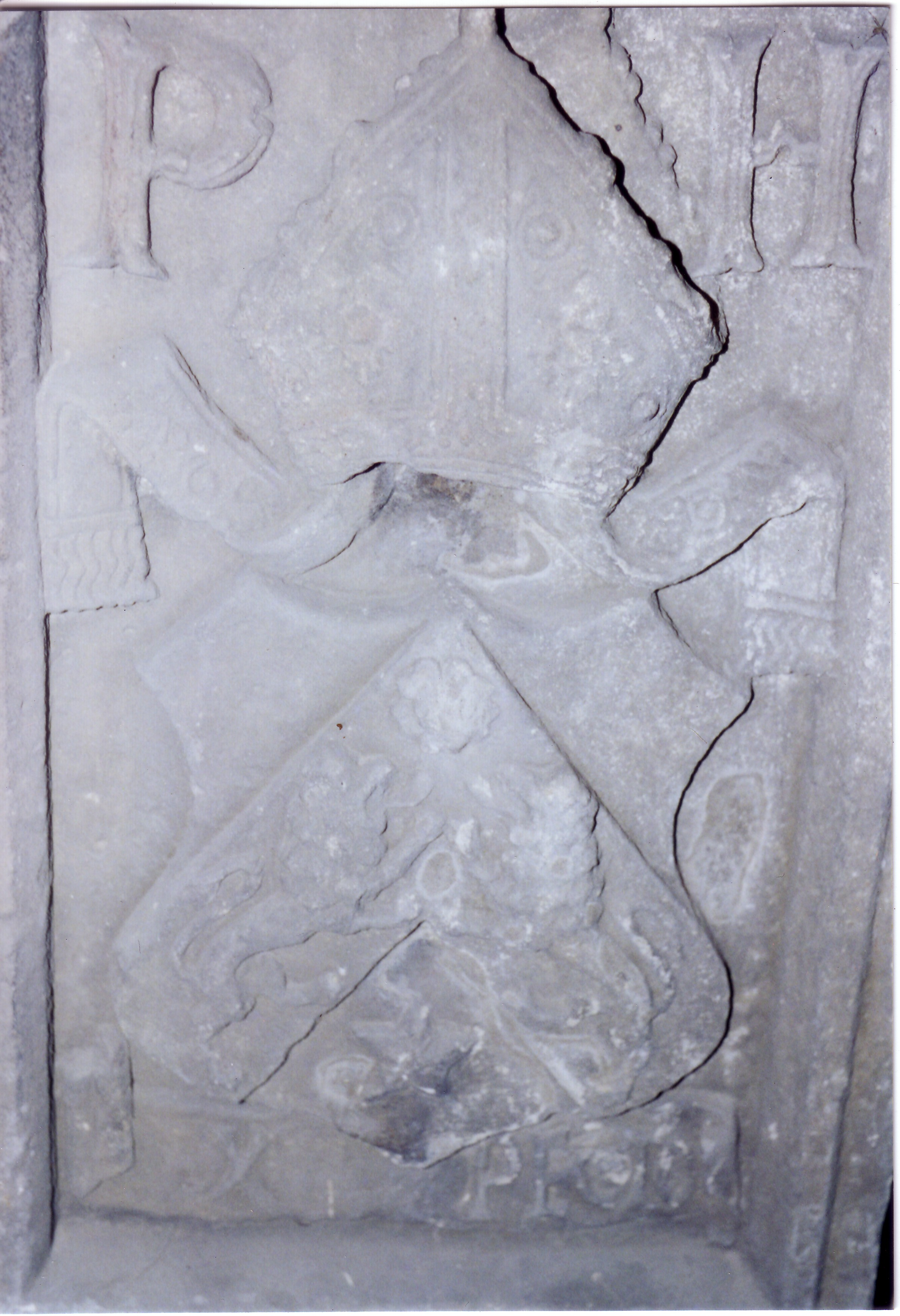 Coat of arms of Patrick Hepburn, Bishop of Moray Photo: Martina L. Abel Location: Spynie Palace Date: 08/2004